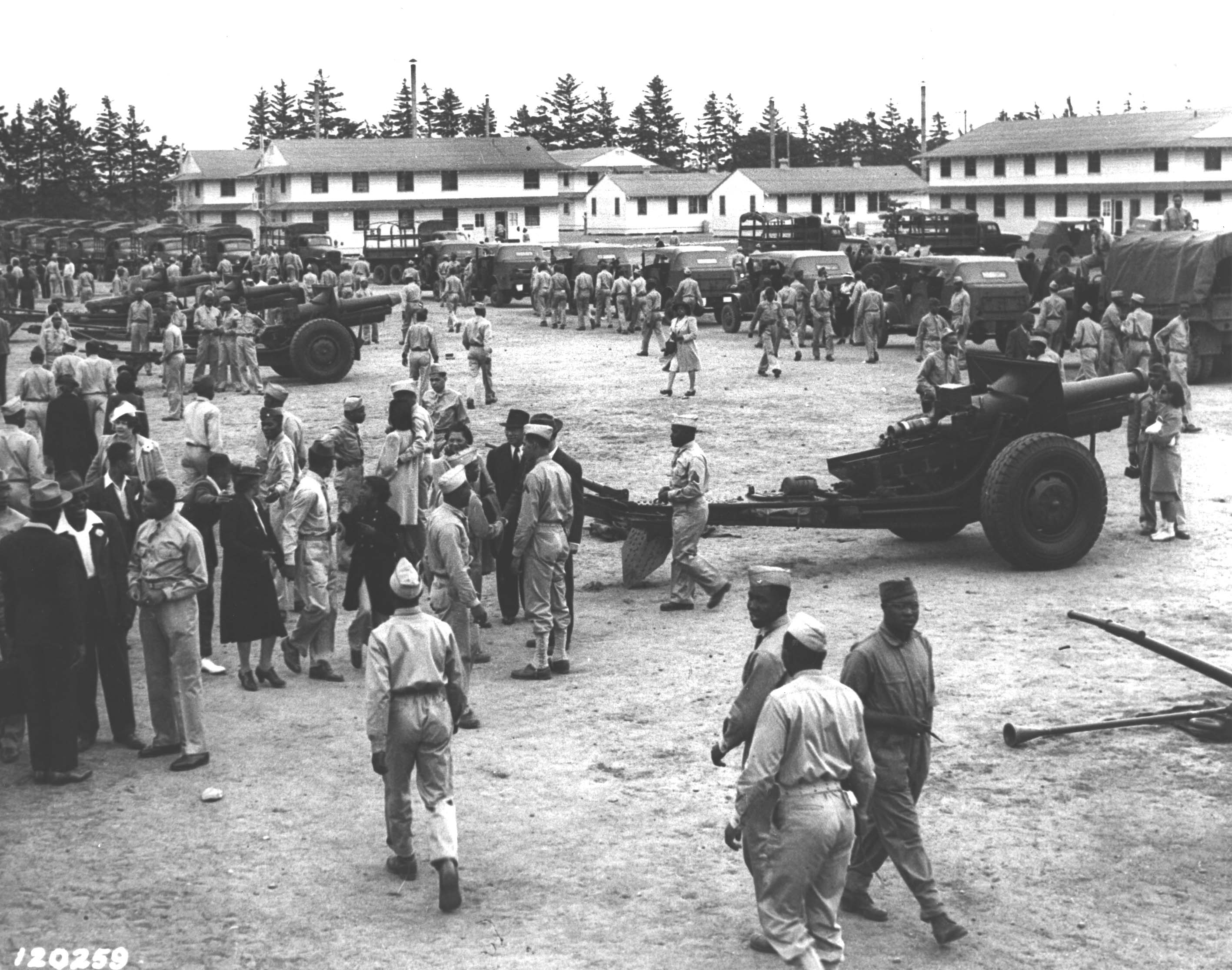 SC120259 - Visitors’ Day for the 184th Field Artillery at Ft. Custer, Michigan, brings thousands of Chicagoans to the Army post to inspect the equipment and meet their friends and relatives. Ft. Custer, Michigan (June 1941)